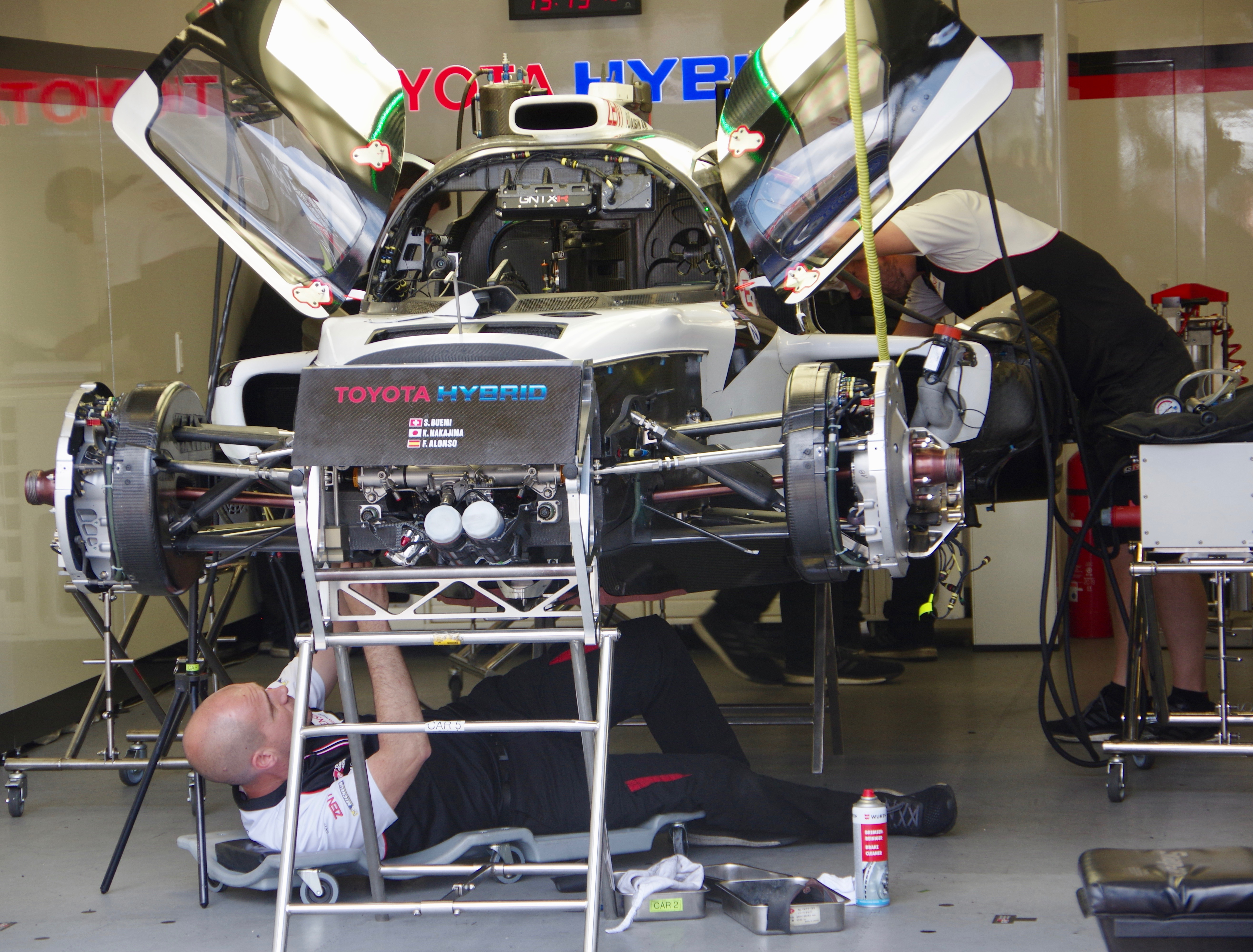 Toyota Gazoo Racing's Toyota TS050 Hybrid No. 8, the overall winner of 2019 24 Hours of Le Mans